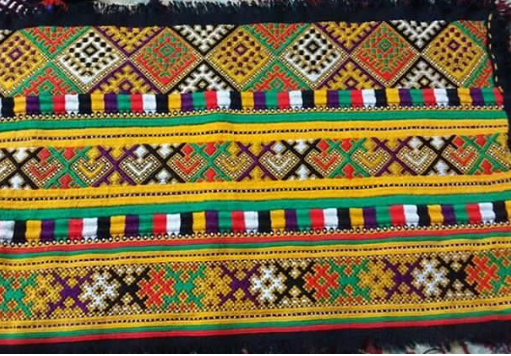 balochi doozi